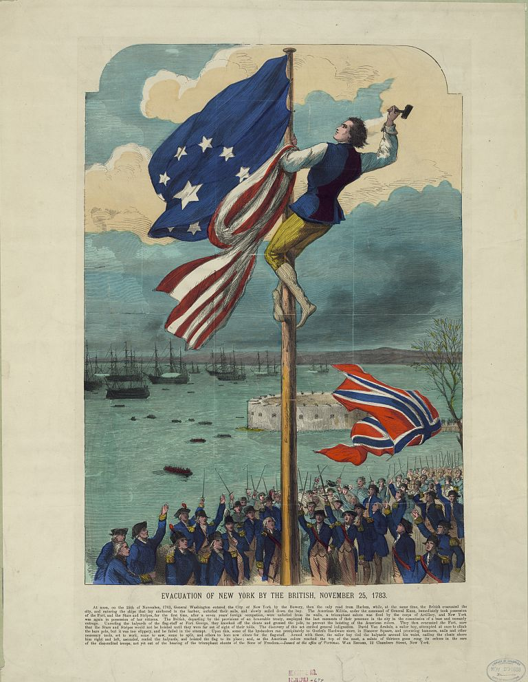 Title: Evacuation of New York by the British, November 25, 1783 Date Created/Published: New York : Issued at the office of Pictorial War Record, 12 Chambers Street, c1883 November 30. Medium: 1 print : wood engraving, hand-colored. Summary: Print showing a man on a flagpole replacing the British flag with an American flag as the British fleet departs New York Harbor. Includes lengthy descriptive text. Reproduction Number: LC-DIG-pga-03446 (digital file from original print) LC-DIG-pga-04026 (digital file from original print, another impression) LC-USZC4-1306 (color film copy transparency of another impression) LC-USZ62-679 (b&w film copy neg.) Rights Advisory: No known restrictions on publication. Call Number: PGA - Pictorial War Record--Evacuation of New York ... (D size) [P&P] PGA - Pictorial War Record--Evacuation of New York ... Another impression. Repository: Library of Congress Prints and Photographs Division Washington, D.C. 20540 USA Notes: Title from item. Library has two impressions. Subjects: Arrivals & departures--British--New York (State)--New York--1780-1790. Flags--American--1780-1790. Evacuation Day, New York, N.Y., 1783. United States--History--Revolution, 1775-1783. Format: Wood engravings--Hand-colored--1880-1890. Collections: Popular Graphic Arts